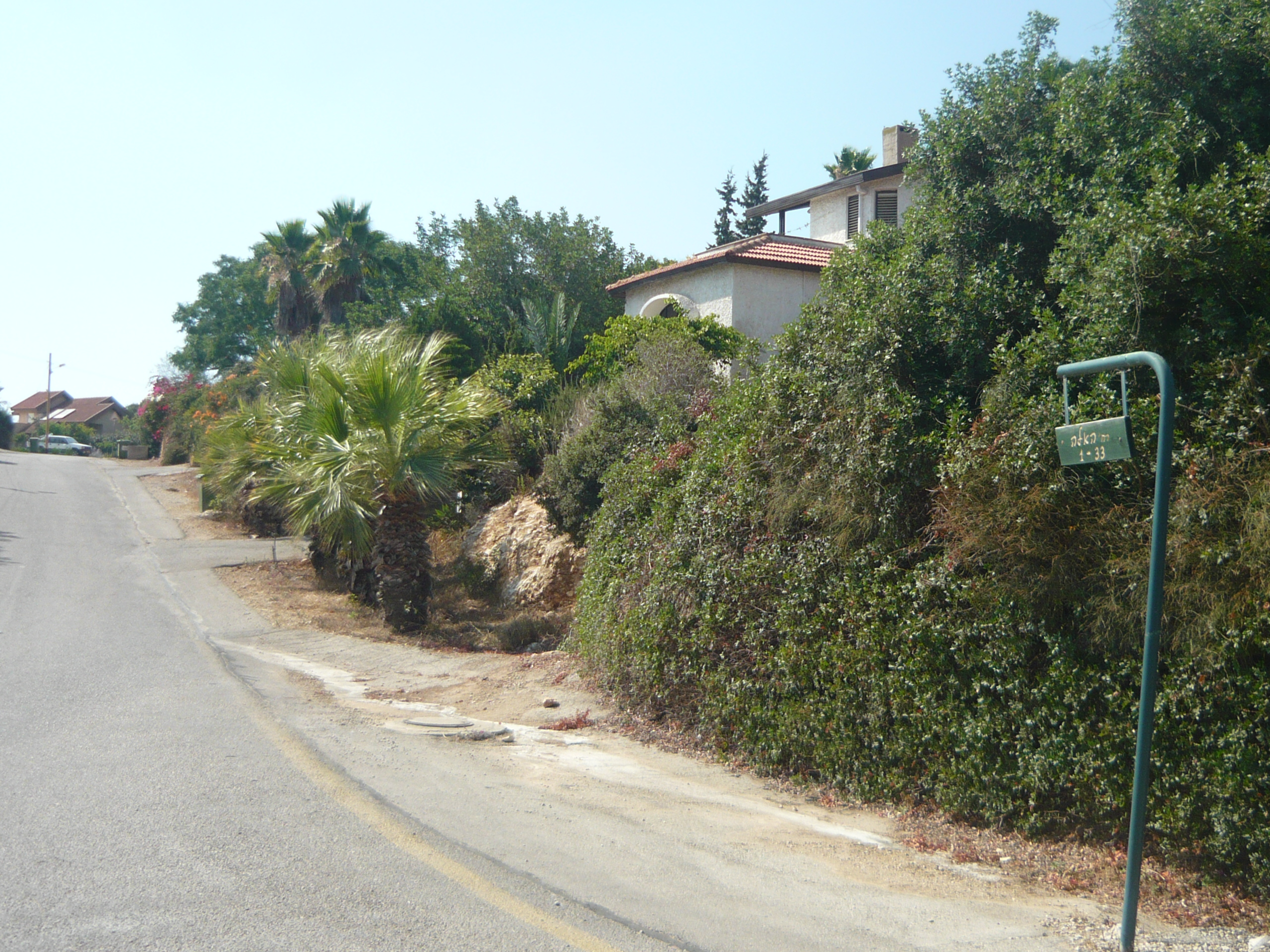 timrat רחוב בתמרת